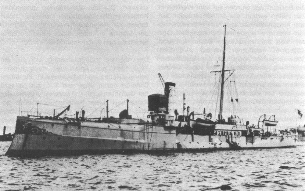 The German light cruiser SMS Jagd.